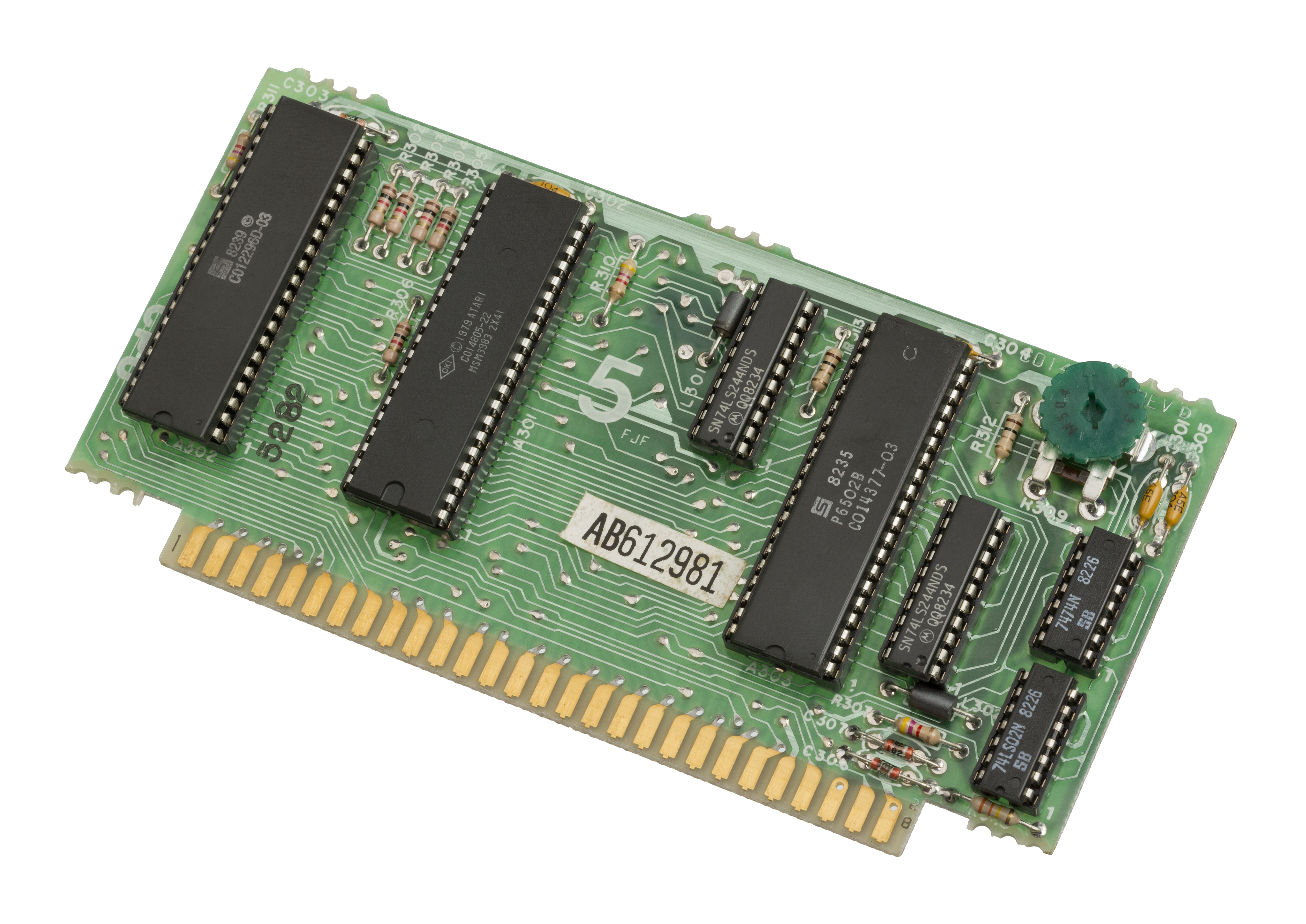 The main processor card for the Atari 800, an 8-bit computer released by Atari in 1979. The board contains a MOS 6502 microprocessor and custom video and sound processors.